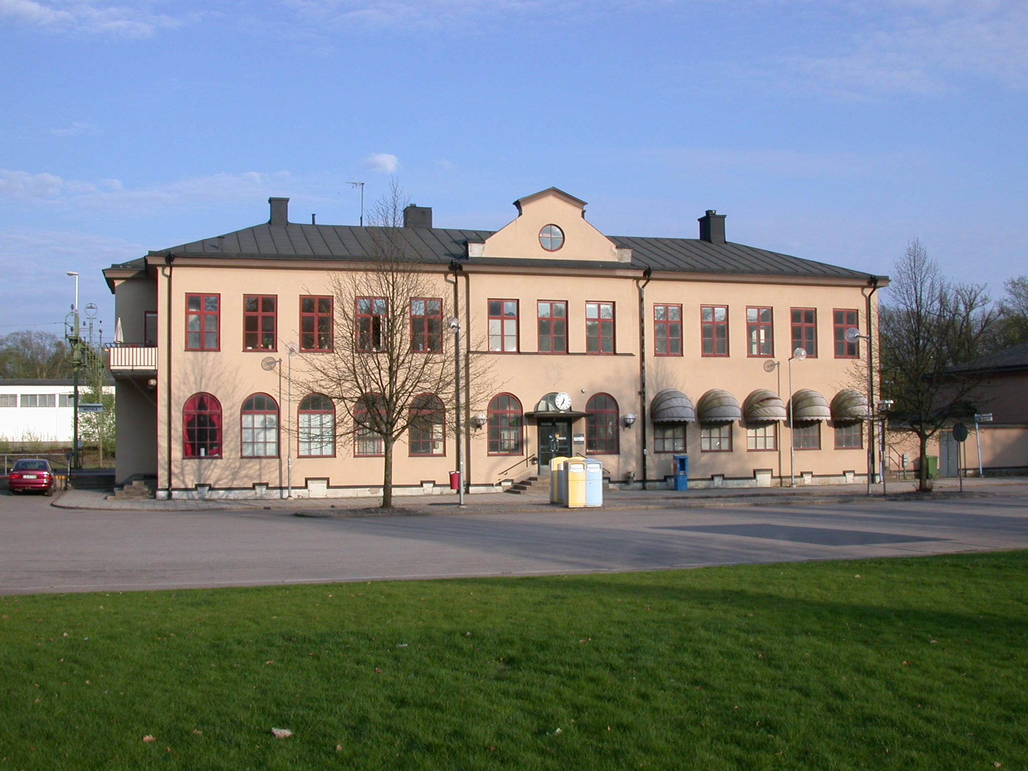 The railway station in Motala, Sweden. Photo by Riggwelter May 10 2006.